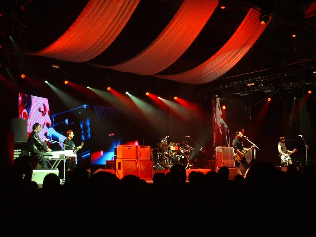 Manic Street Preachers live in Brighton